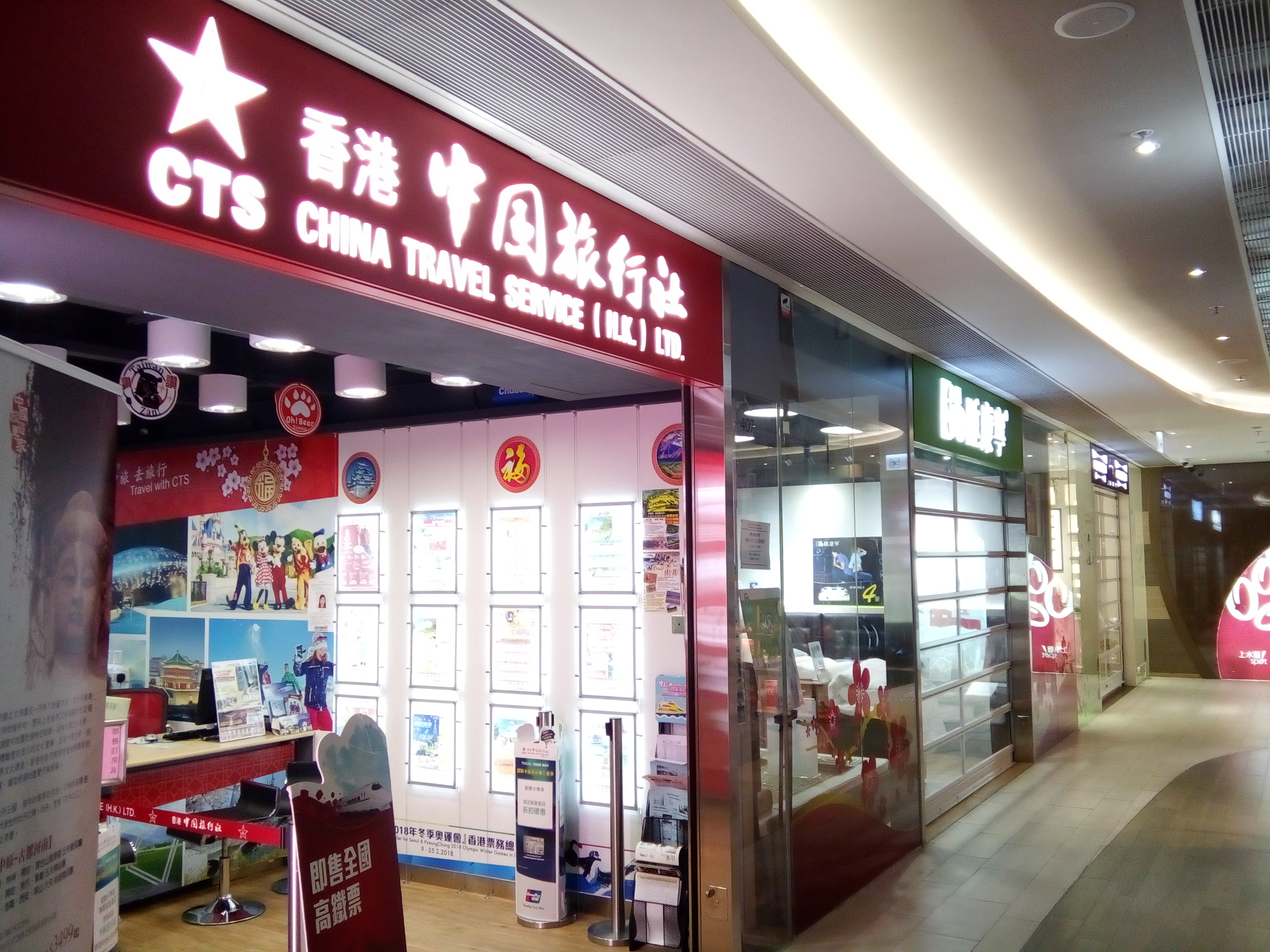 HK 上水匯 Sheung Shui Spot shop in Jan 2017